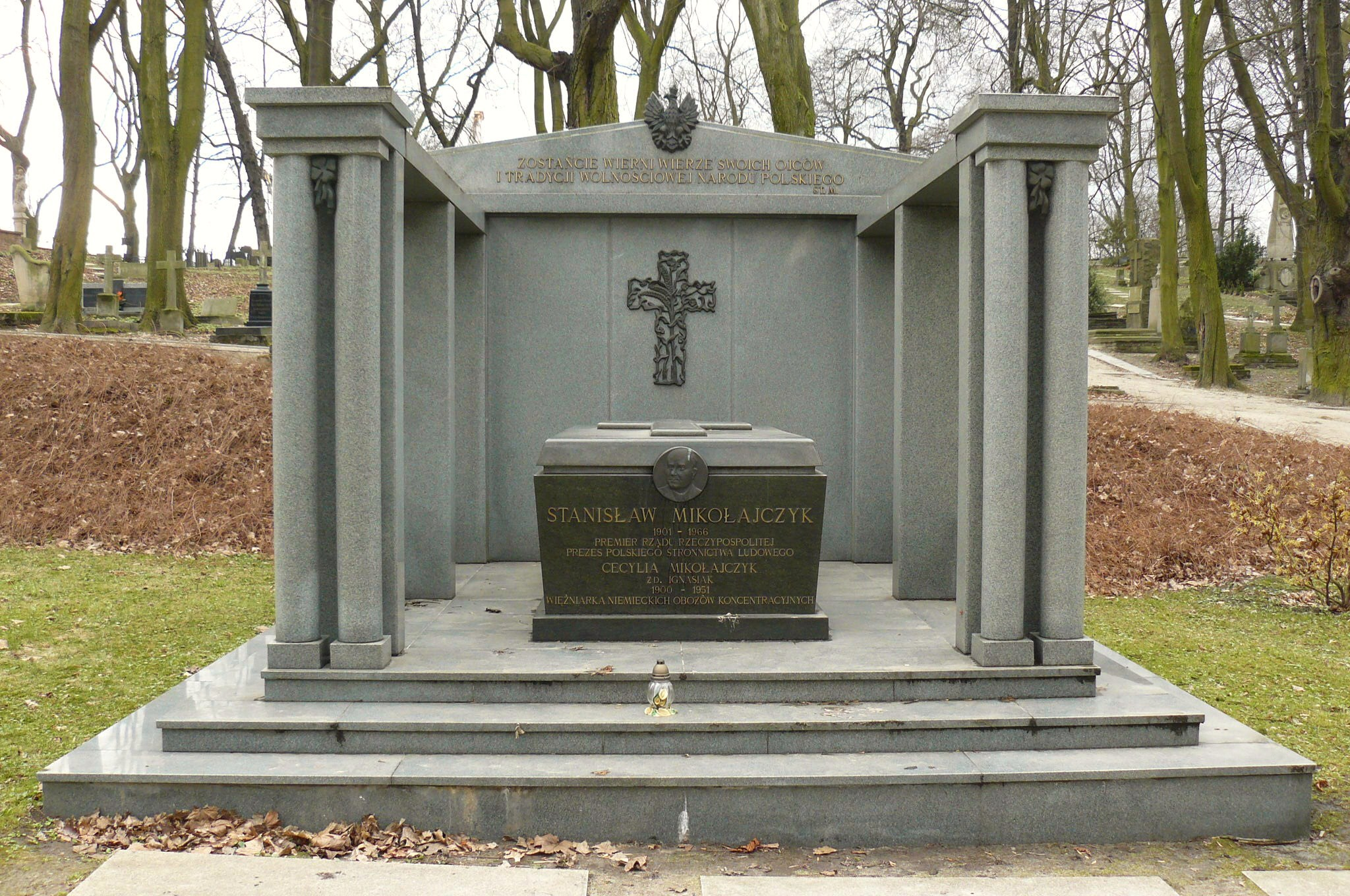 Stanislaw Mikolajczyk Tomb - Poznan.